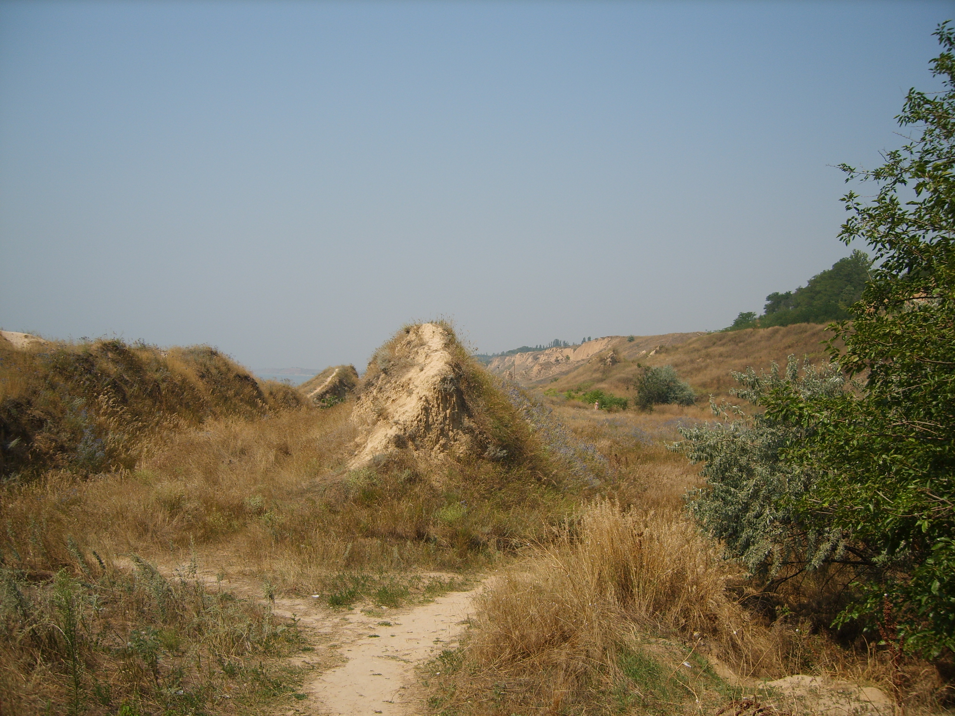 grassland in the Ukraine. Steppes on the coast of Black Sea